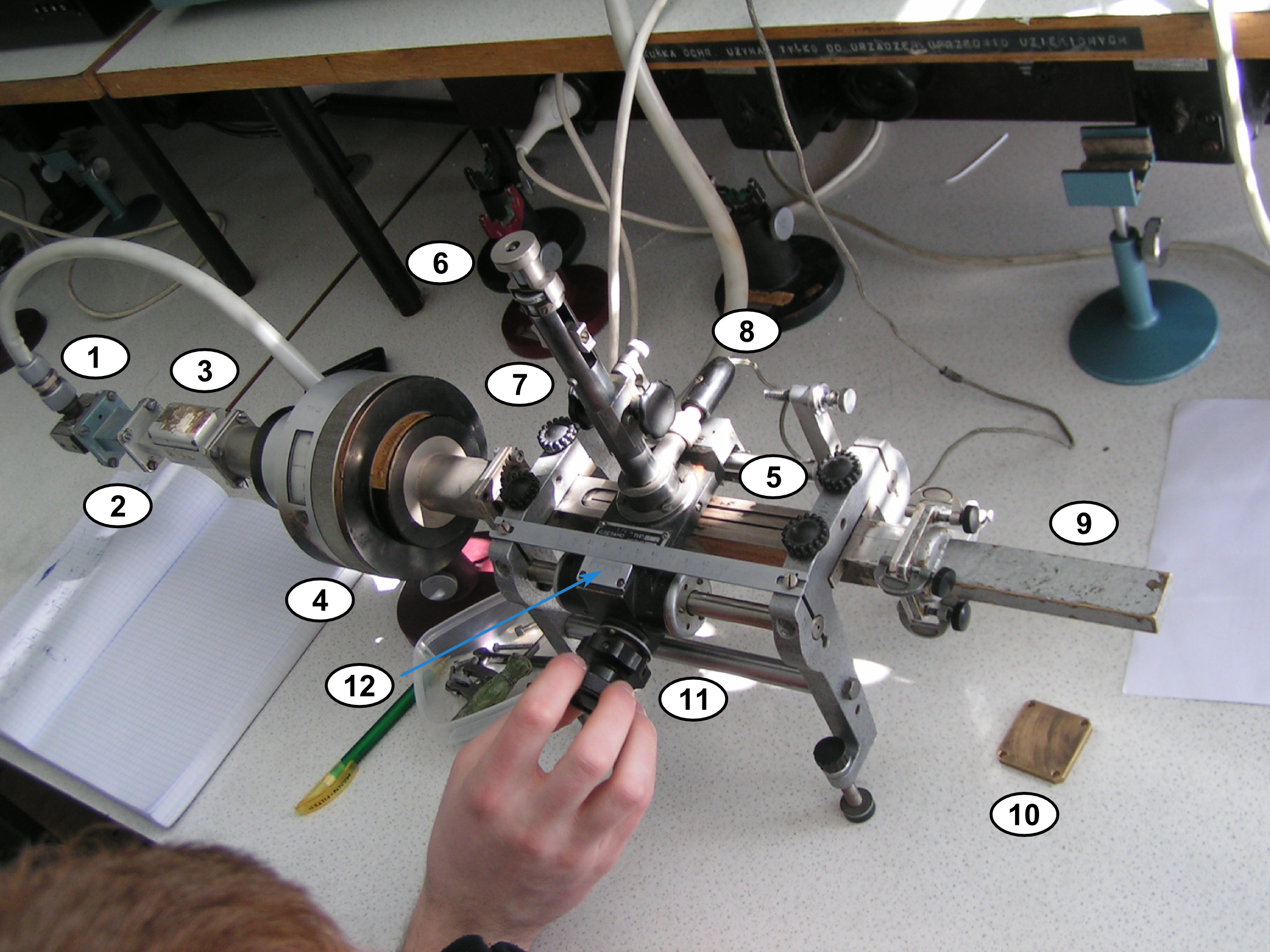 Microwave test bench. From left to right: coax to waveguide transition, taper to narrower guide (blue), ferrite isolator, precision rotary variable attenuator, slotted line, matched load (on the table under the load is the short used to fix the reference plane). Microwave circuit laboratory, Faculty of Electronics, Telecommunications and Informatics, Gdańsk University of Technology.